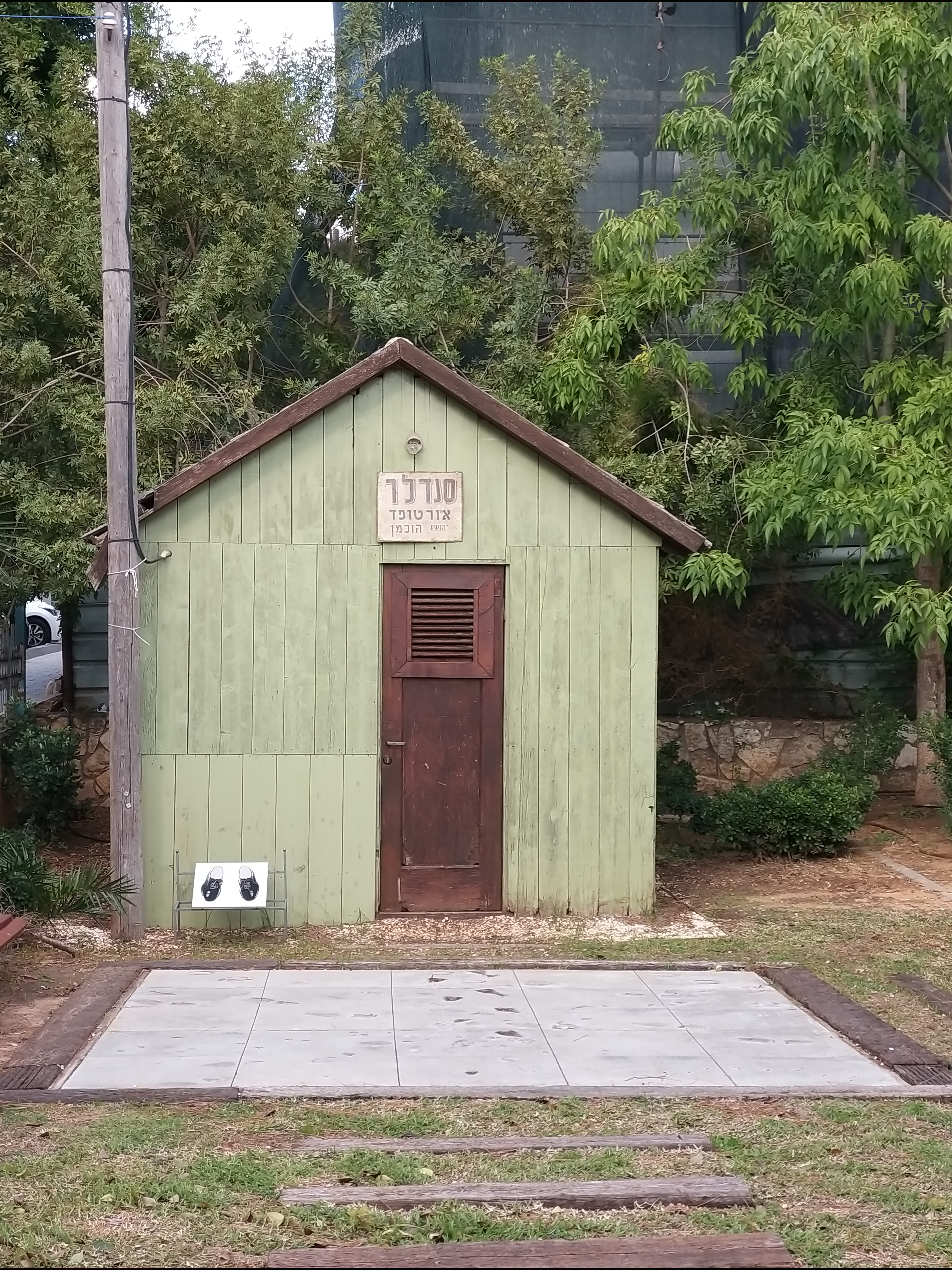 The Founders' Trail, Kfar Saba: site #6 - The Shoemaker's Shack itself